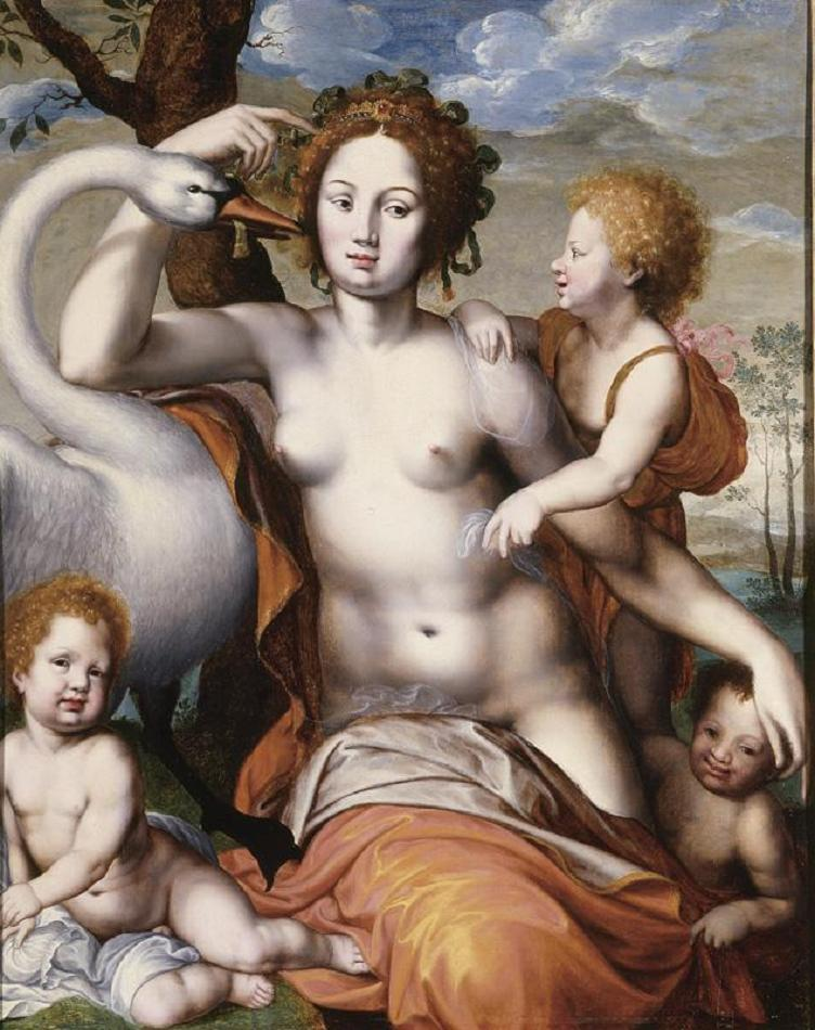 Leda with Swan and Children